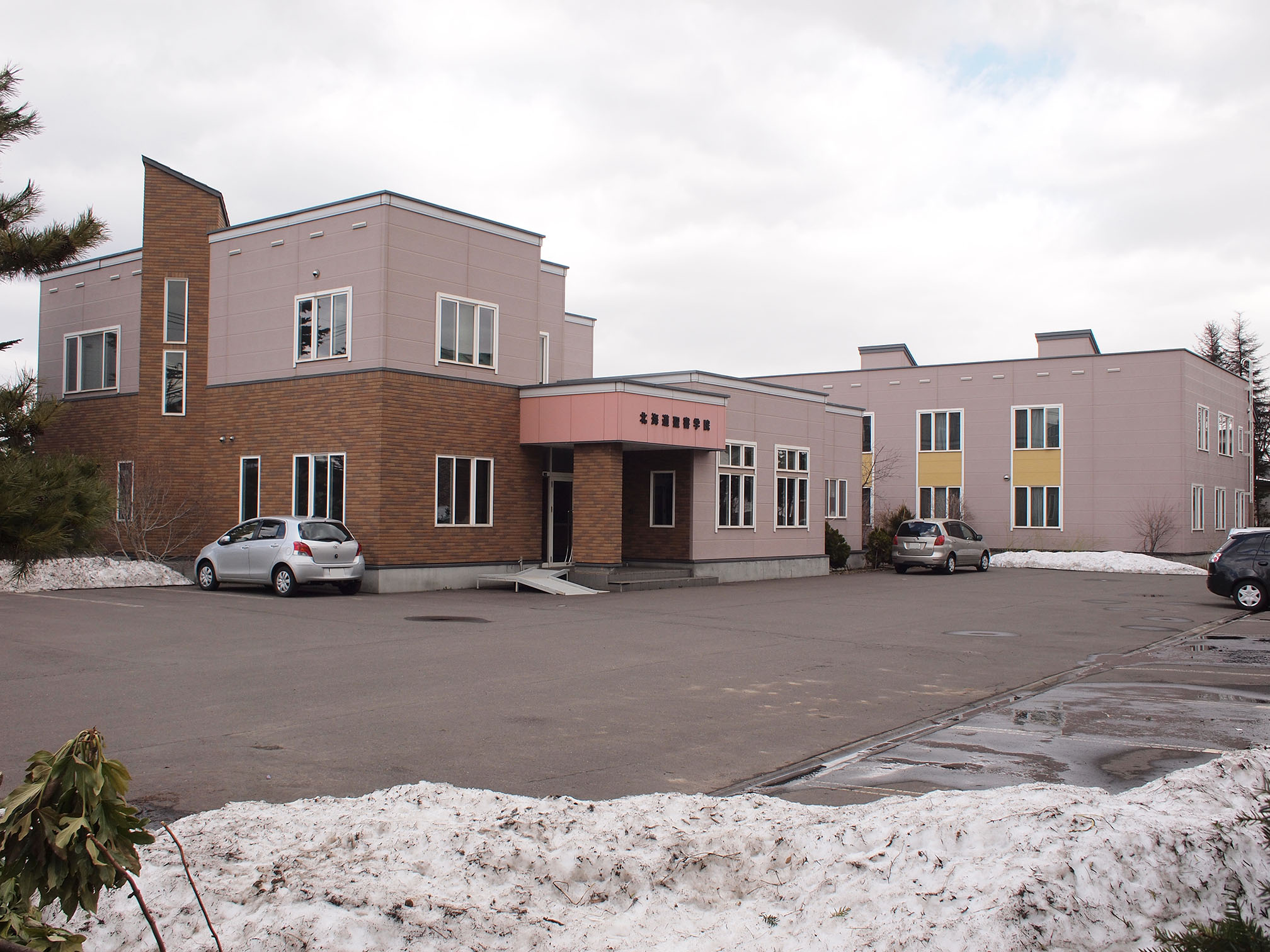 Hokkaido Bible Institute, Sapporo, Hokkaido, Japan